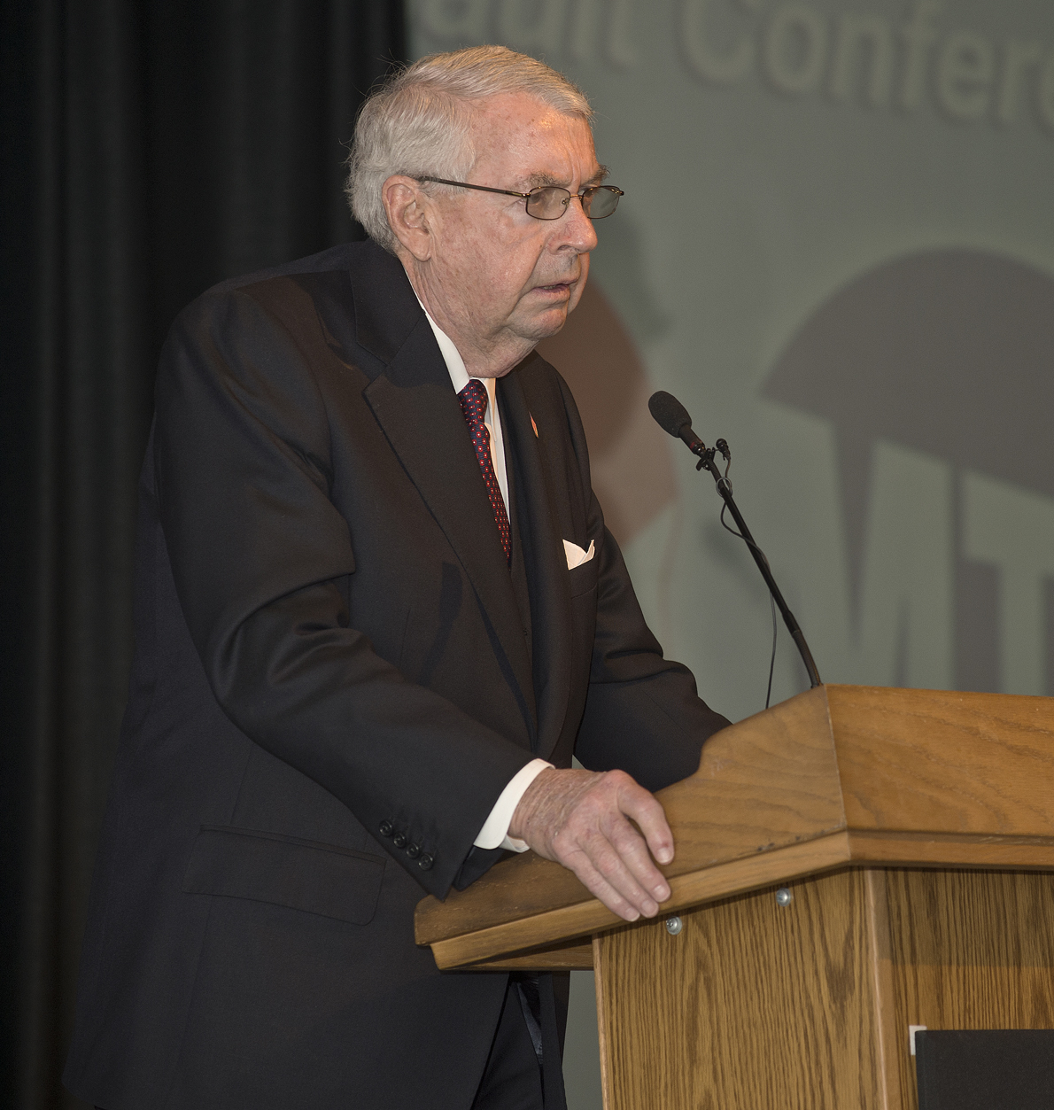 On May 10, 2012, the MTA, Transport Workers Union Local 100, Amalgamated Transit Union Locals 726 and 1056, District Attorneys, law enforcement and legislators participated in the First National Transit Workers Assault Conference, an event to address the growing number of assaults against transit workers and to build public awareness of the issue of transit worker security. Kings County District Attorney Charles J. Hynes spoke at the conference. Photo: Metropolitan Transportation Authority / Patrick Cashin.